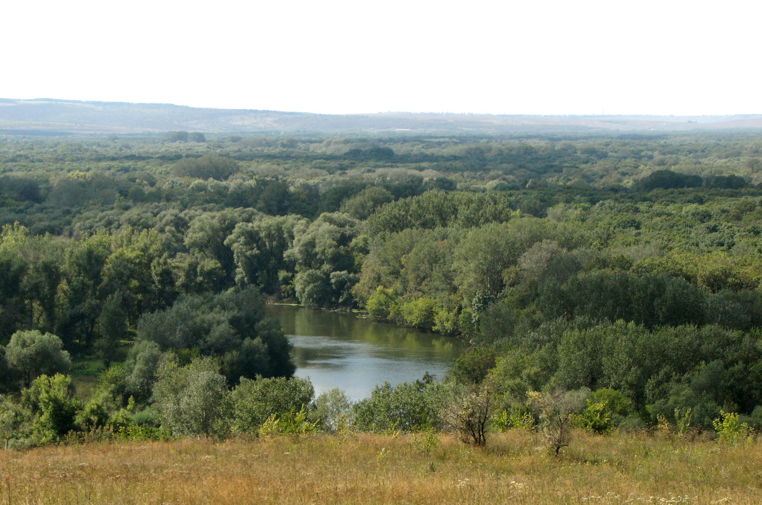 Donets river near Shipilovka